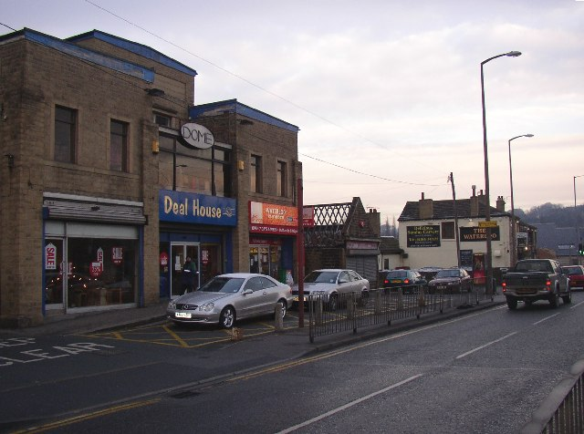 Wakefield Road, Waterloo, Dalton. On the left the architecture of the building containing the shops suggests to me a former cinema. On the right is the Waterloo pub at the junction of the Wakefield and Penistone roads.